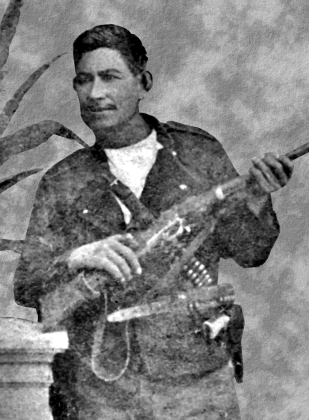 This is one of two known photos commissioned by Ramon Corral after the capture of Cajemé in 1887. The background has been replaced for better clarity.